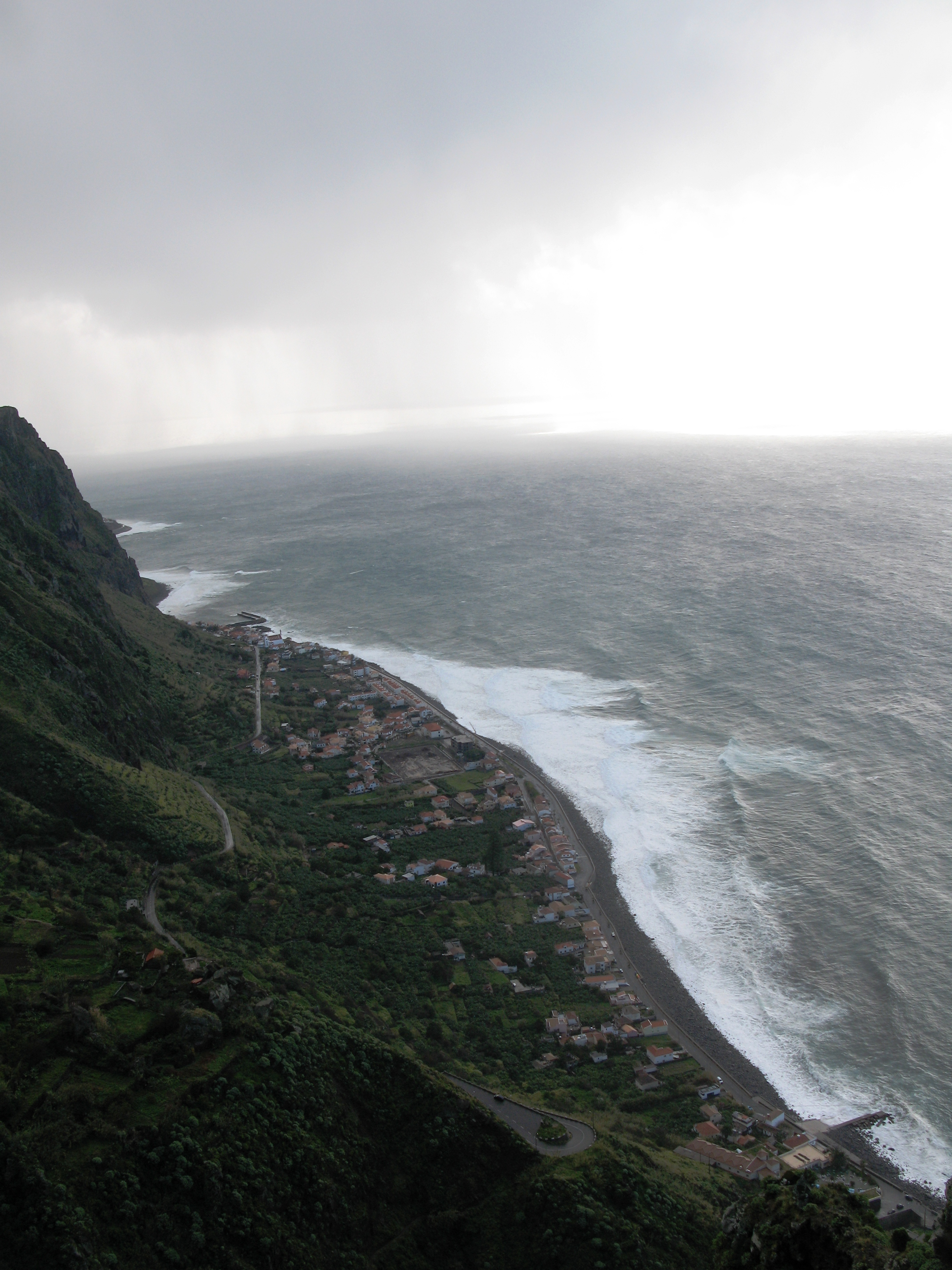 View of Paul do Mar